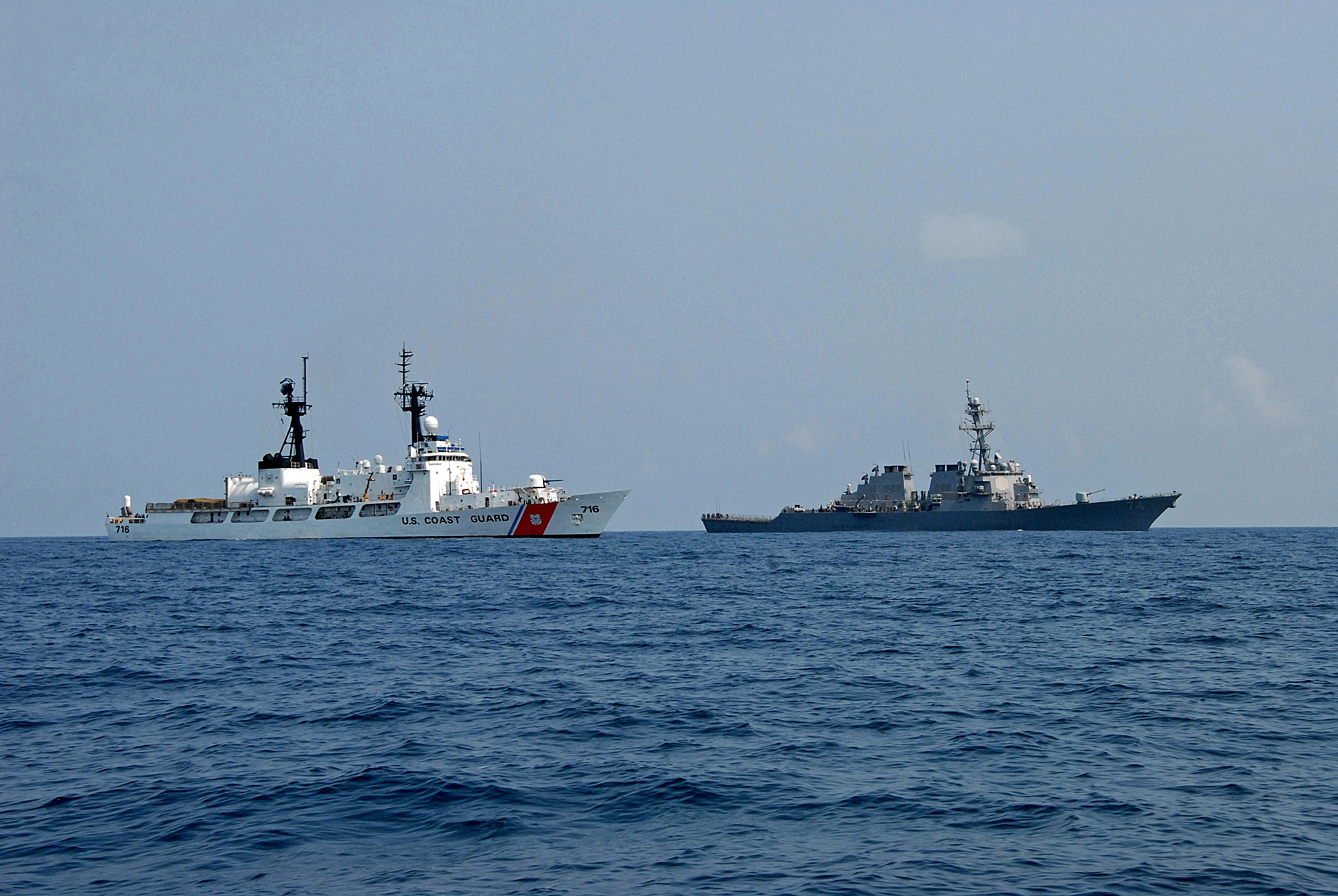 080826-G-1103J-517 BLACK SEA (Aug. 26, 2008) The U.S. Coast Guard Cutter Dallas, WHEC-716, and the guided-missile destroyer USS McFaul, DDG-74, transit through the Black Sea en route to the Republic of Georgia to deliver humanitarian relief supplies.